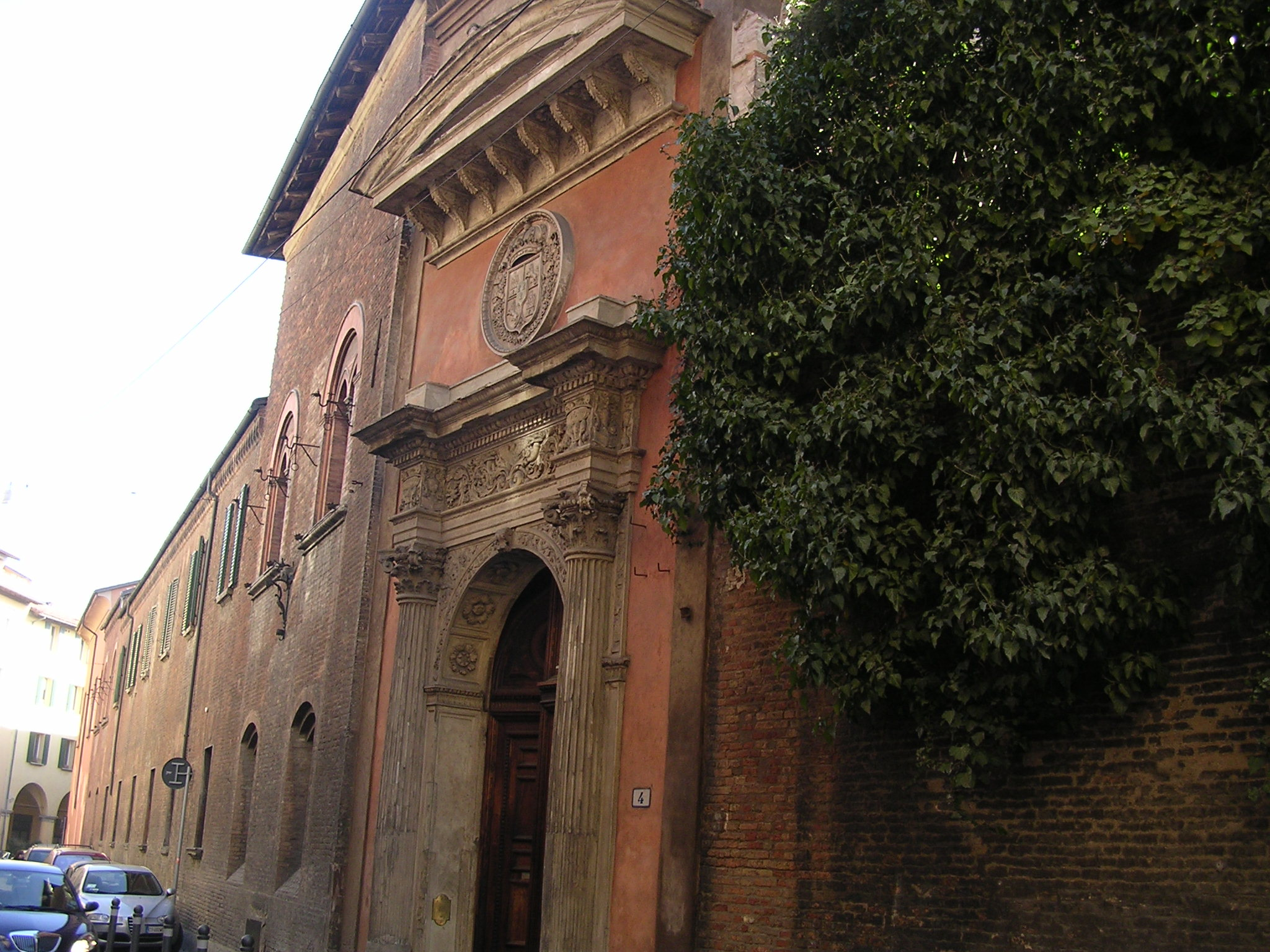 The Collegio di Spagna, a historic university college, founded in 1364 in Bologna, Italy.